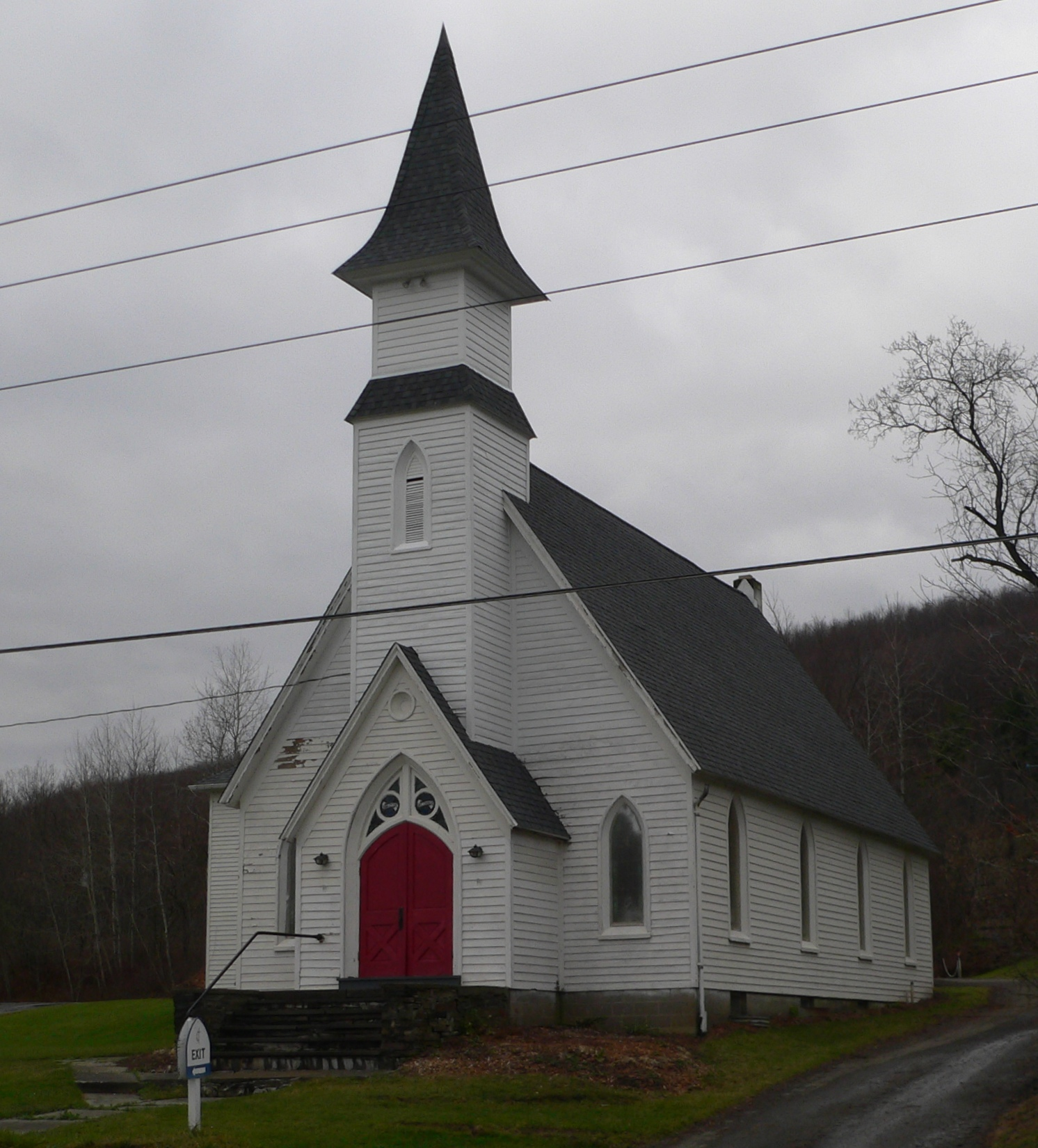 Old Hawleyton United Methodist Episcopal Church, located at 923 Hawleyton Road in Hawleyton, New York; seen from the northeast.